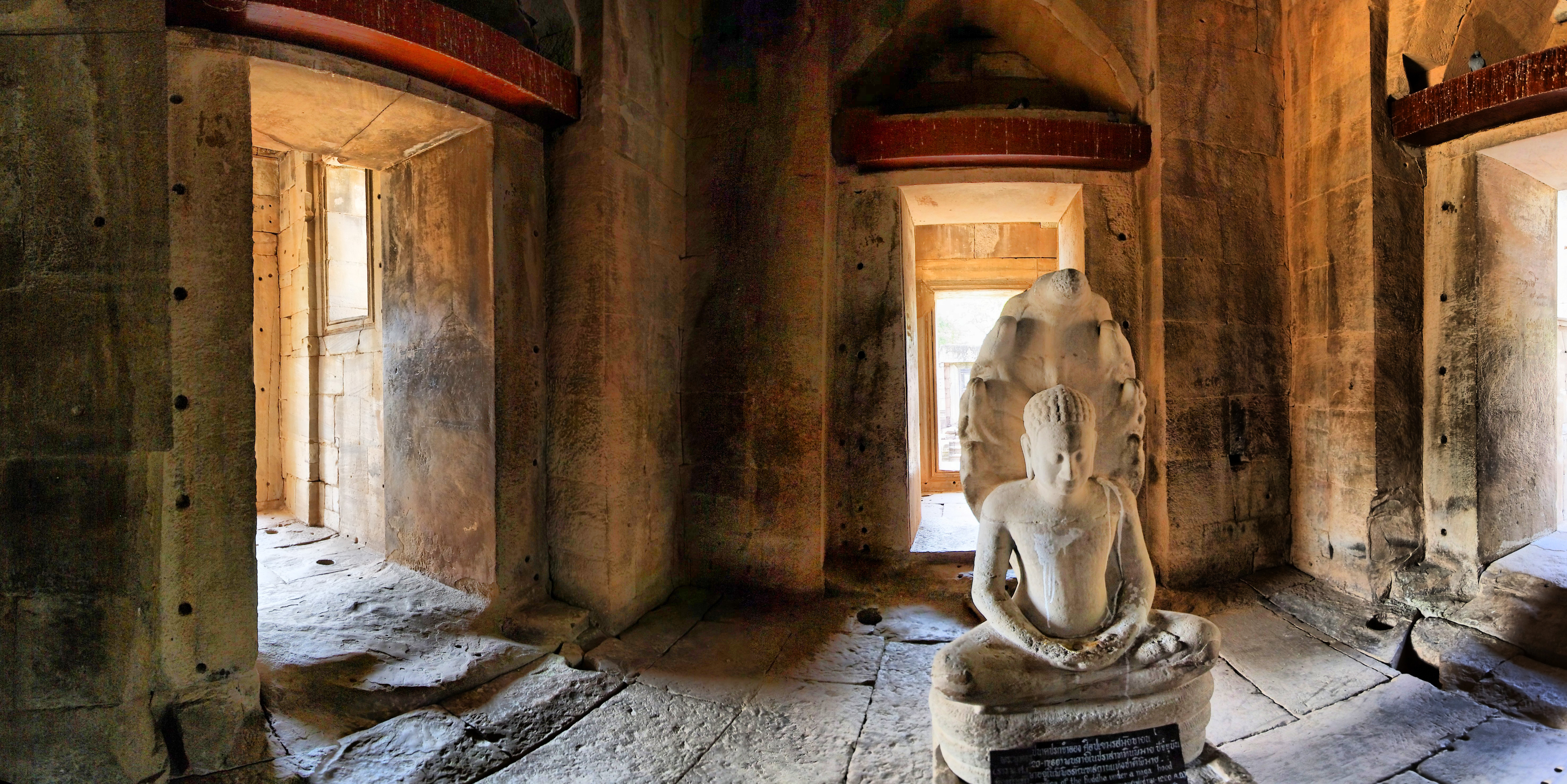 Prasat Hin Phimai, Phimai, Thailand